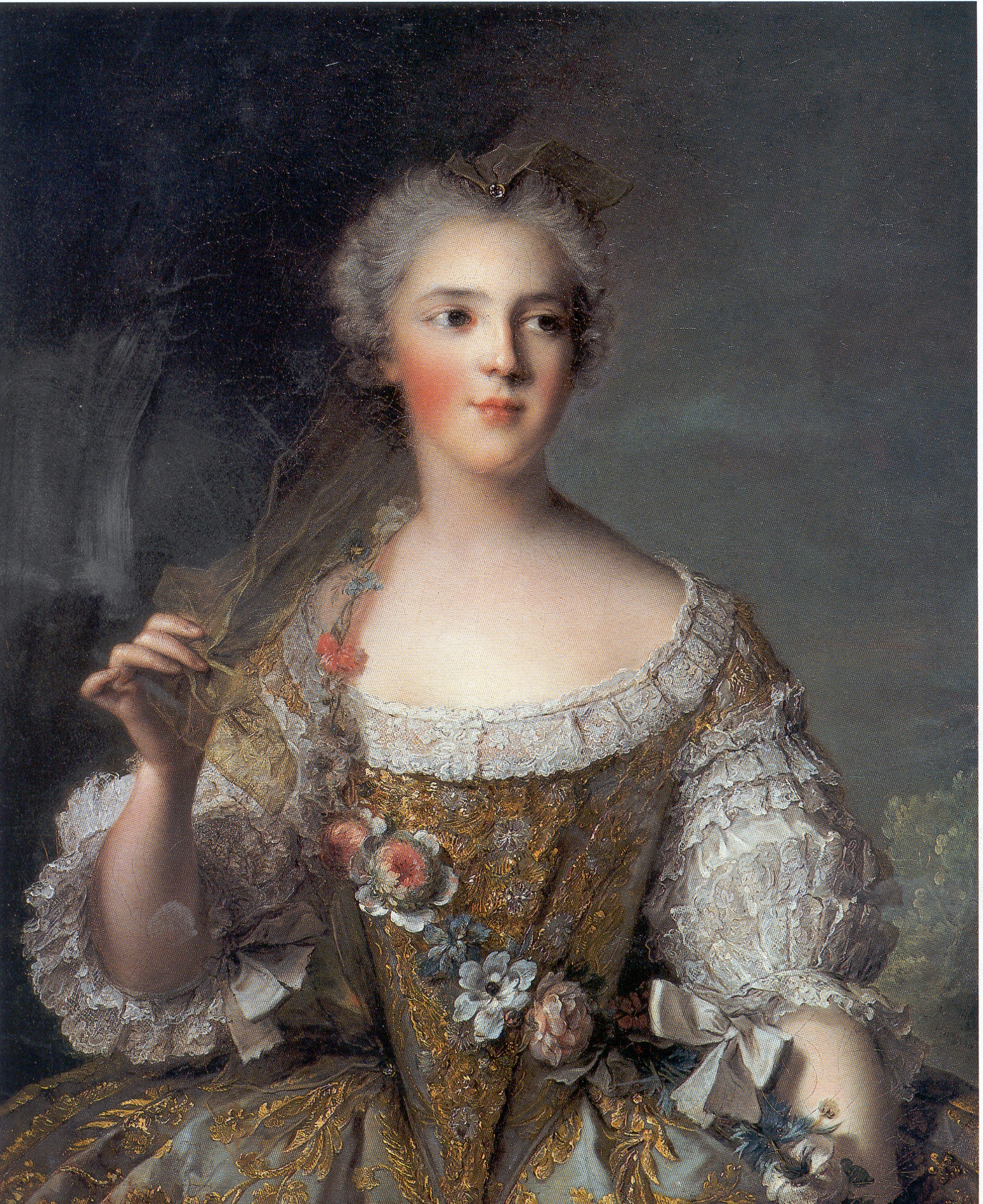 Sophie-Philippine-Élisabeth-Justine of France (1734–1782), known as Madame Sophie, daughter of Louis XV, in a court dress and holding her veil